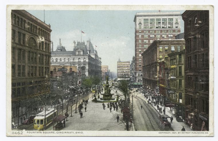 Fountain Square, Cincinnati, Ohio (1907-1908)